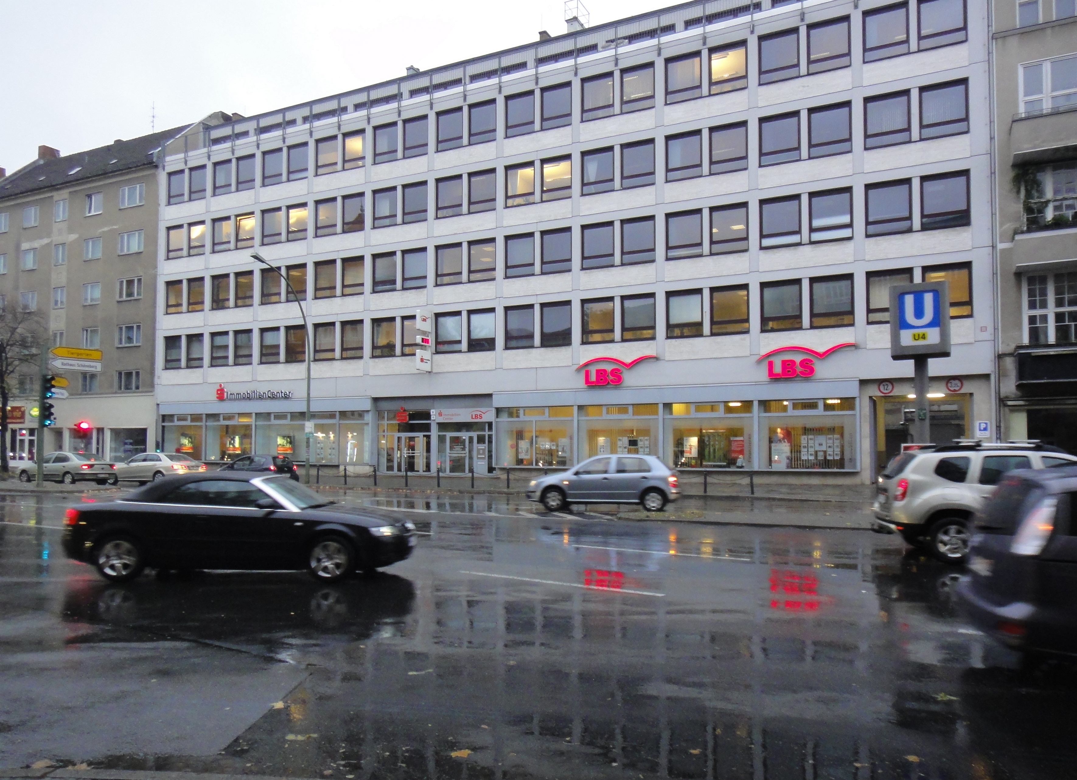 Real property center of the Sparkasse Berlin/LBS on Hauptstraße, Berlin-Schöneberg in Winter